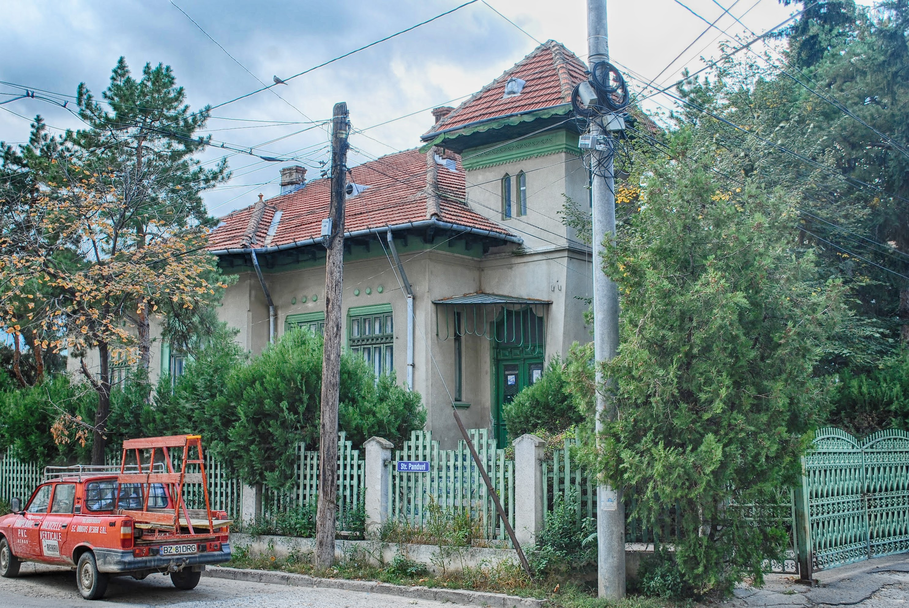 Building in Panduri street no. 3, Buzău, Romania